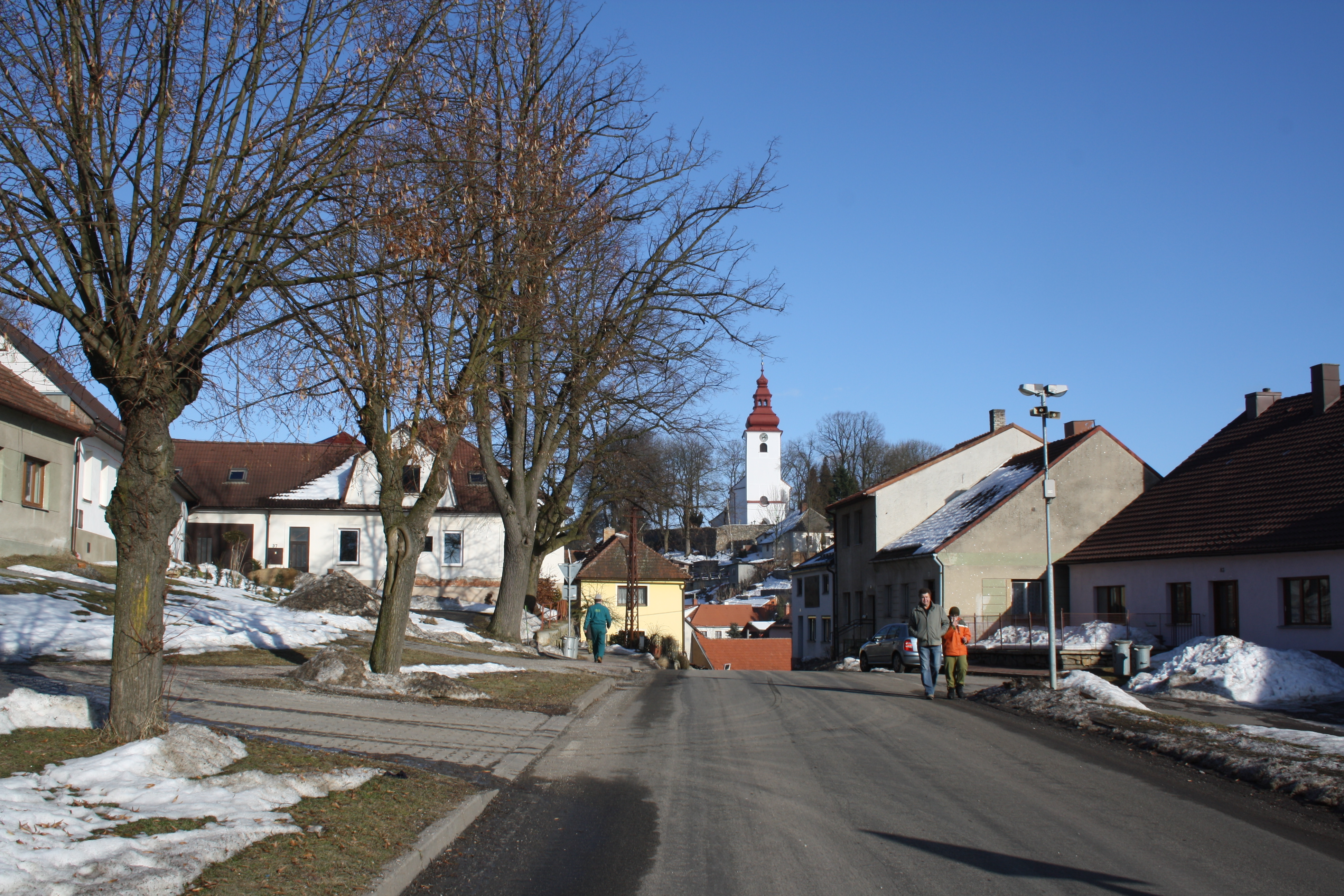 Kamenice Center, Jihlava District.